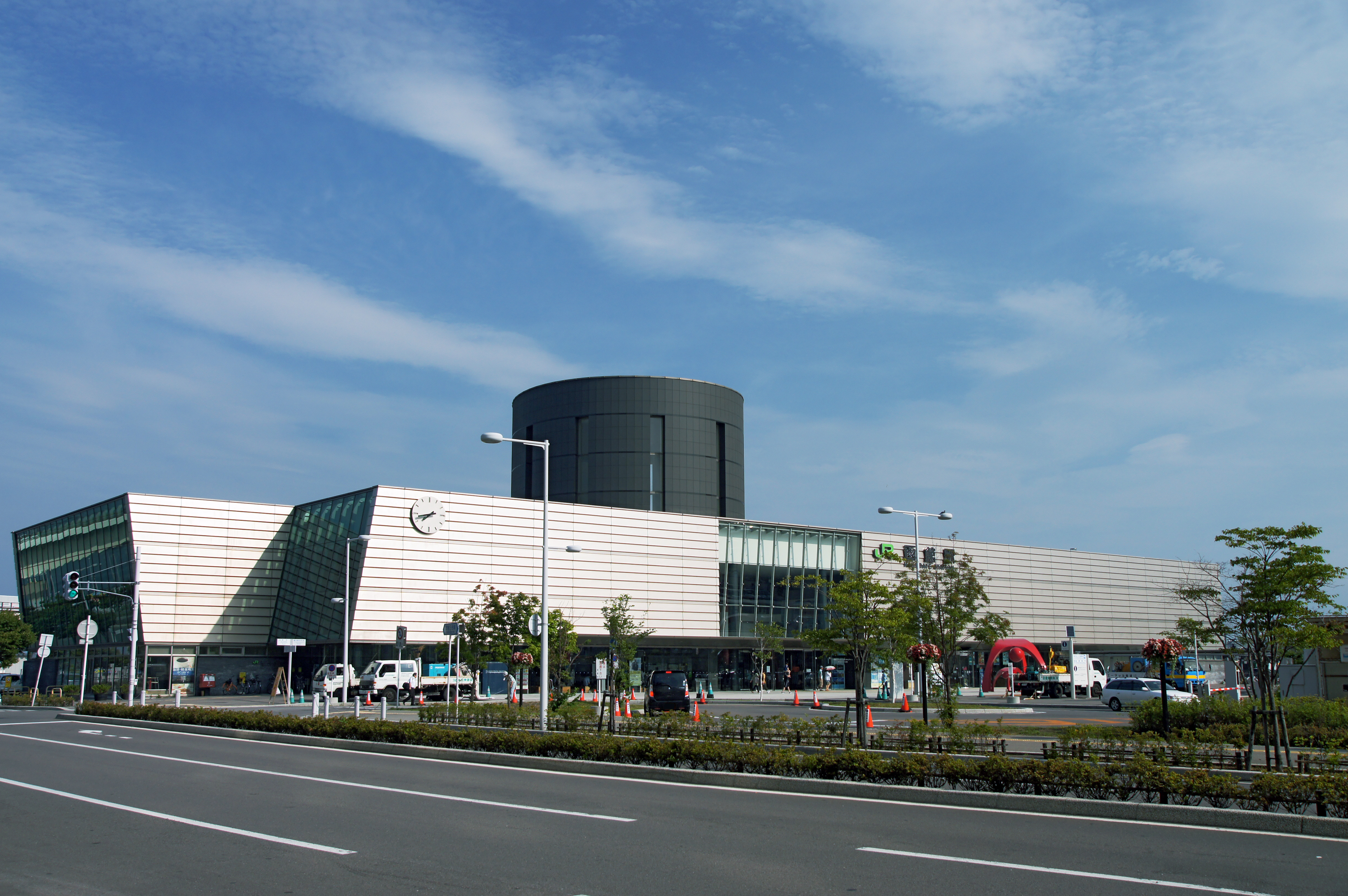 Hakodate Station in Hakodate, Hokkaido prefecture, Japan